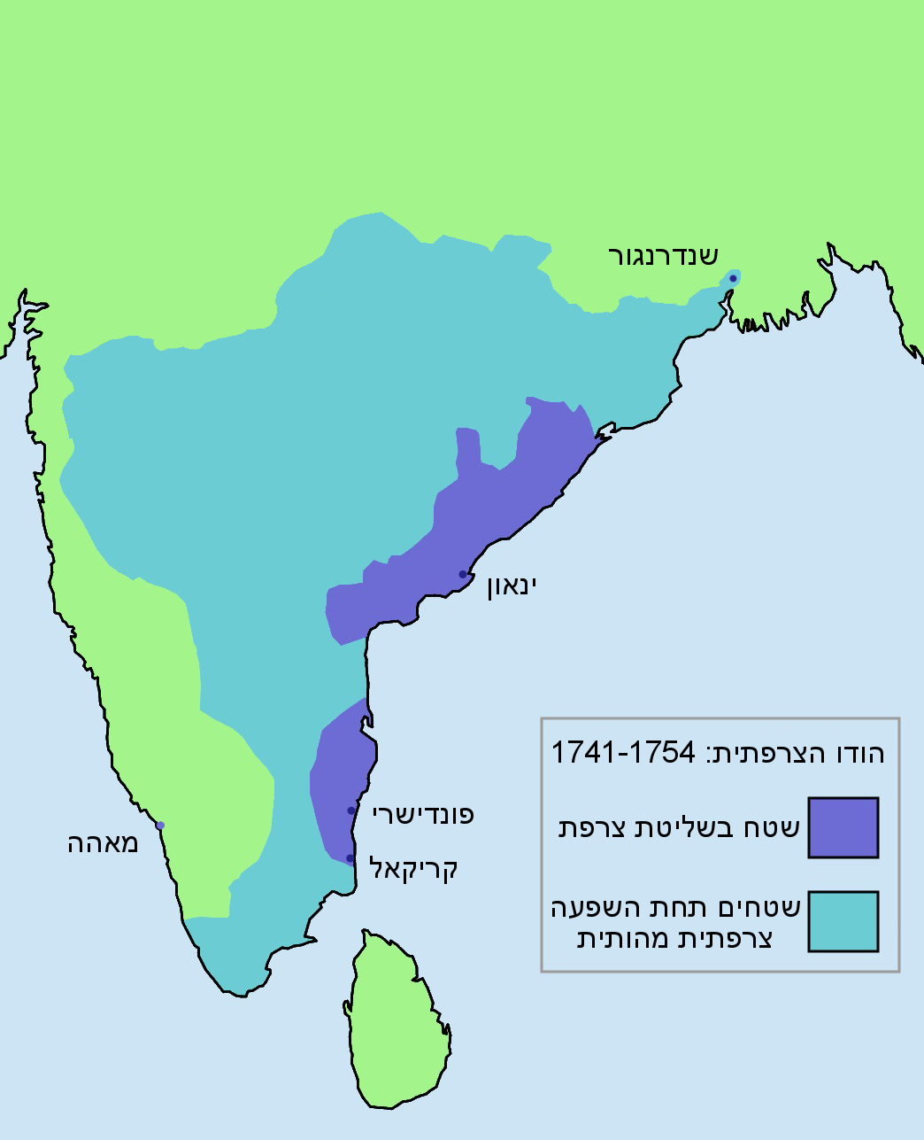 French control and influence in India 1741-1754